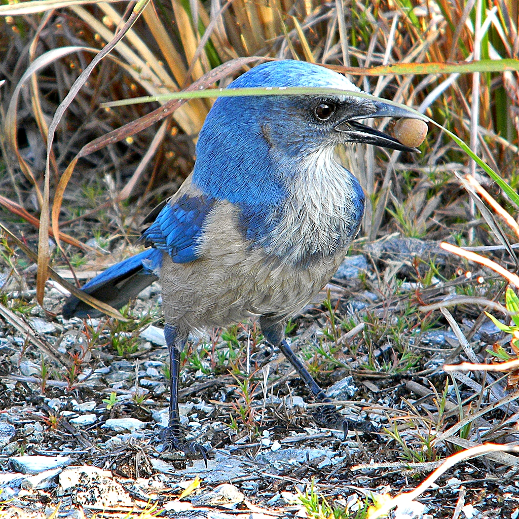 This lovable, loony, threatened endemic hopped up to see why a silly human was sitting in the road staring at weeds! It proudly showed me the seed or nut it had found and then promptly hid it in the grass. Here is a shaky hand-held video (only had little pocket camera with me) of a family group in the same area, eating larvae recorded in April 2010